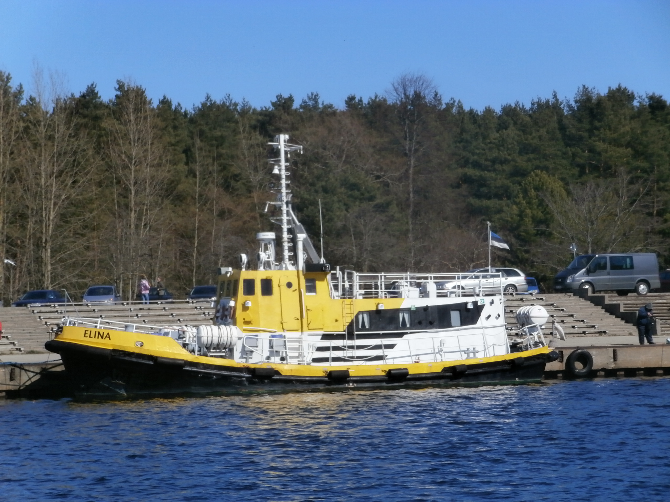 Elina at Quay on the Pirita River in Tallinn 16 April 2014